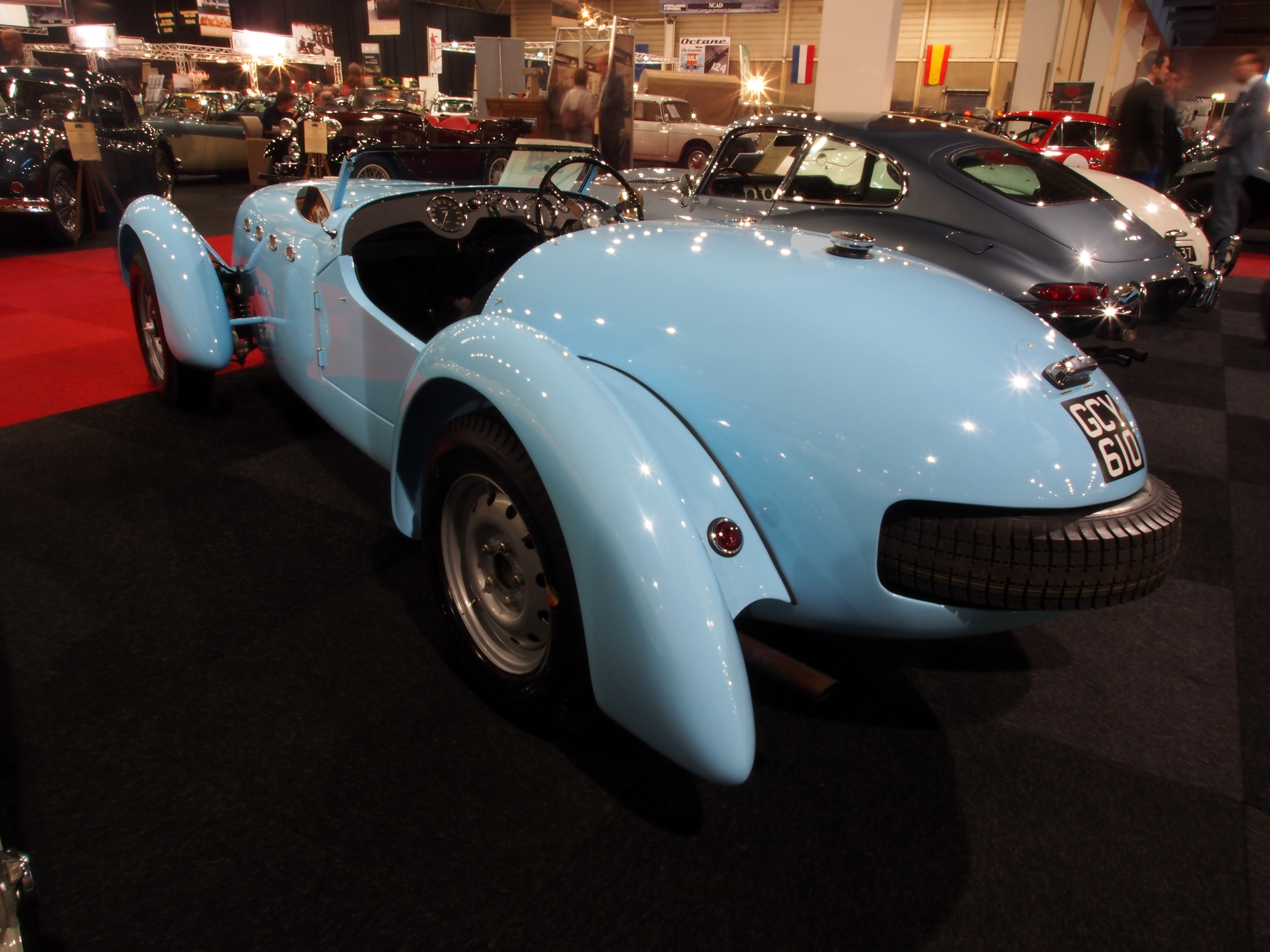 Photographed in Maastricht, The Netherlands.